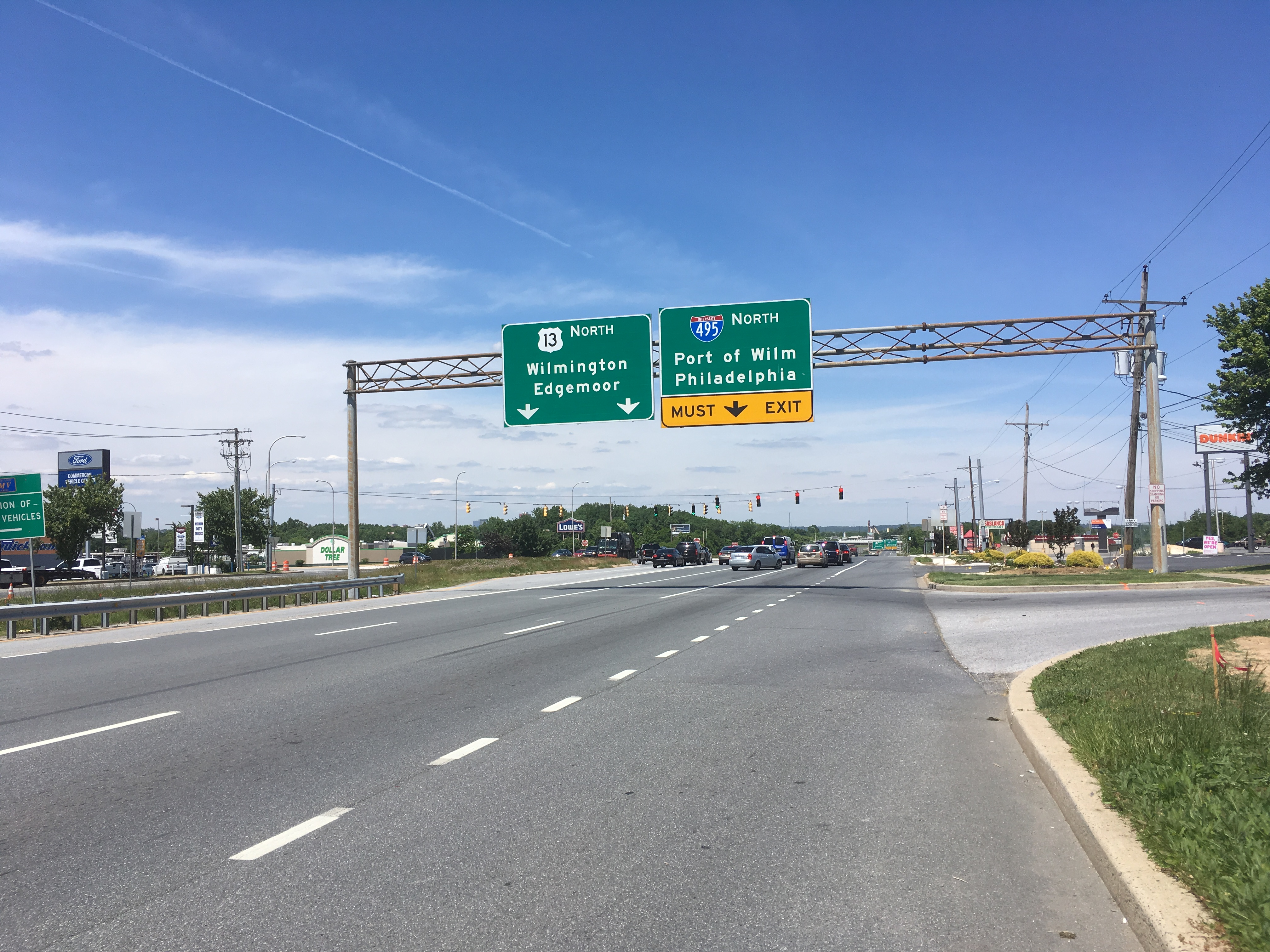 Northbound U.S. Route 13 (Dupont Highway) approaching the interchange with Interstate 495 in Minquadale, Delaware